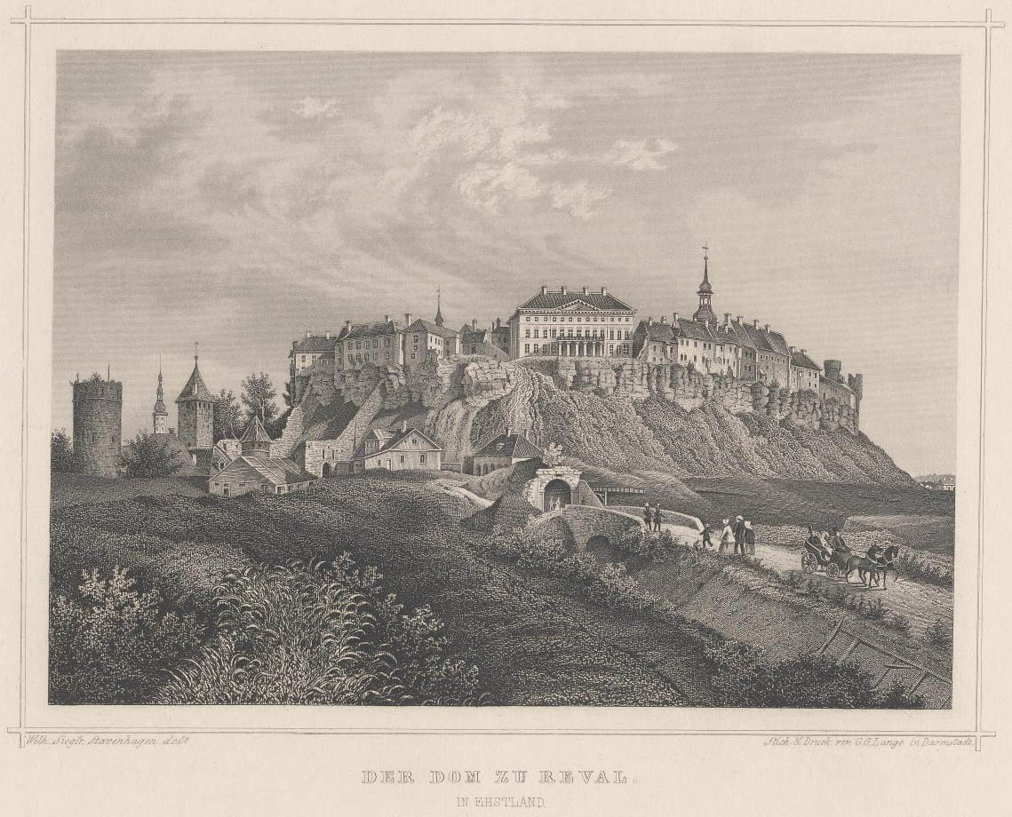 Toompea hill in Tallinn, Estonia (a 1867 print).